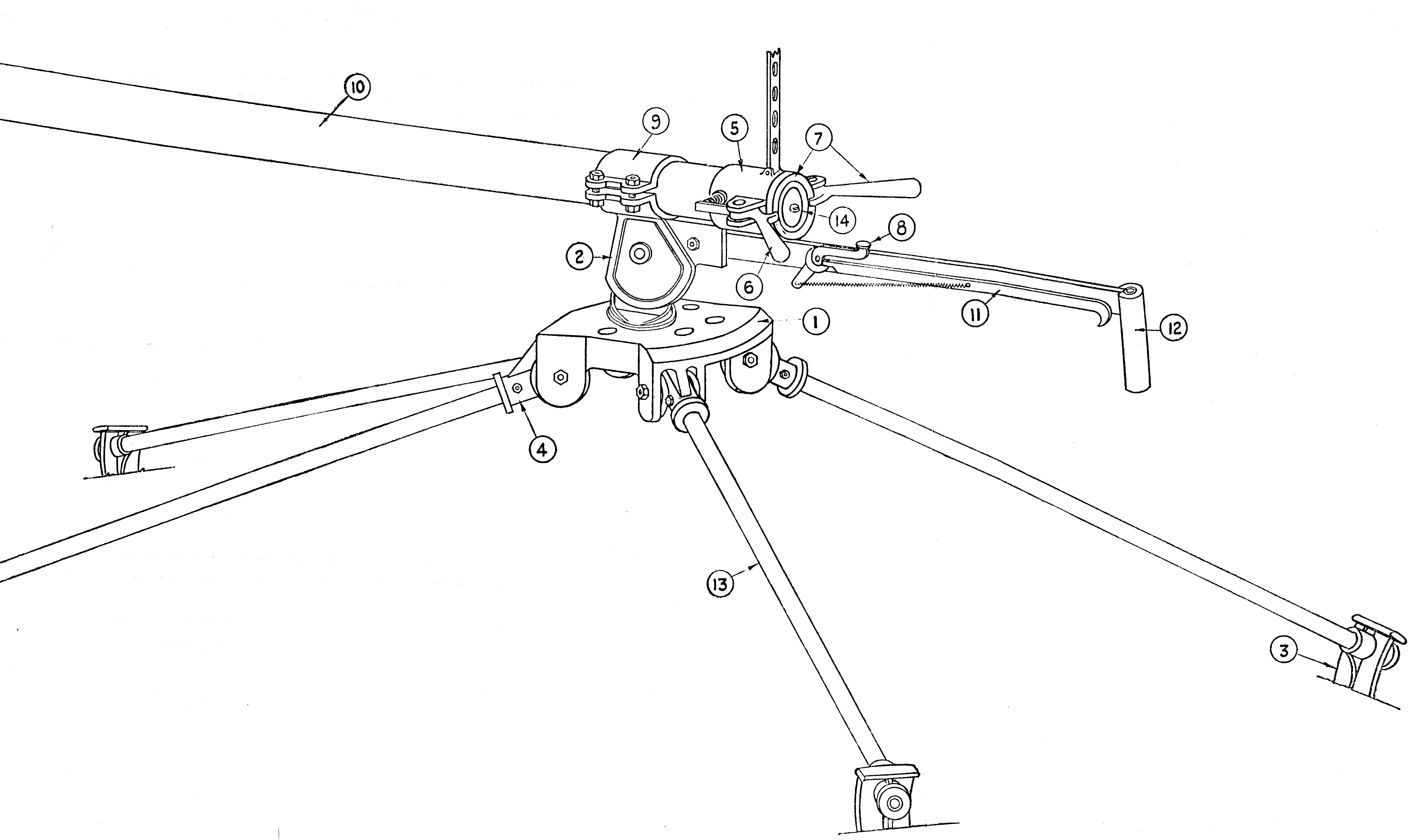 Northover Projector from Military Training Pamphlet No 42 Tank Hunting and Destruction Key: 1: Base 2: Pivot 3: Spades 4: Leg sockets 5: Breech ring 6: Breech locking lever 7: Breech block handle 8: Firing hammer 9: Barrel clip 10: Barrel 11: Trigger bar 12: Operating handle 13: Legs 14: Primer